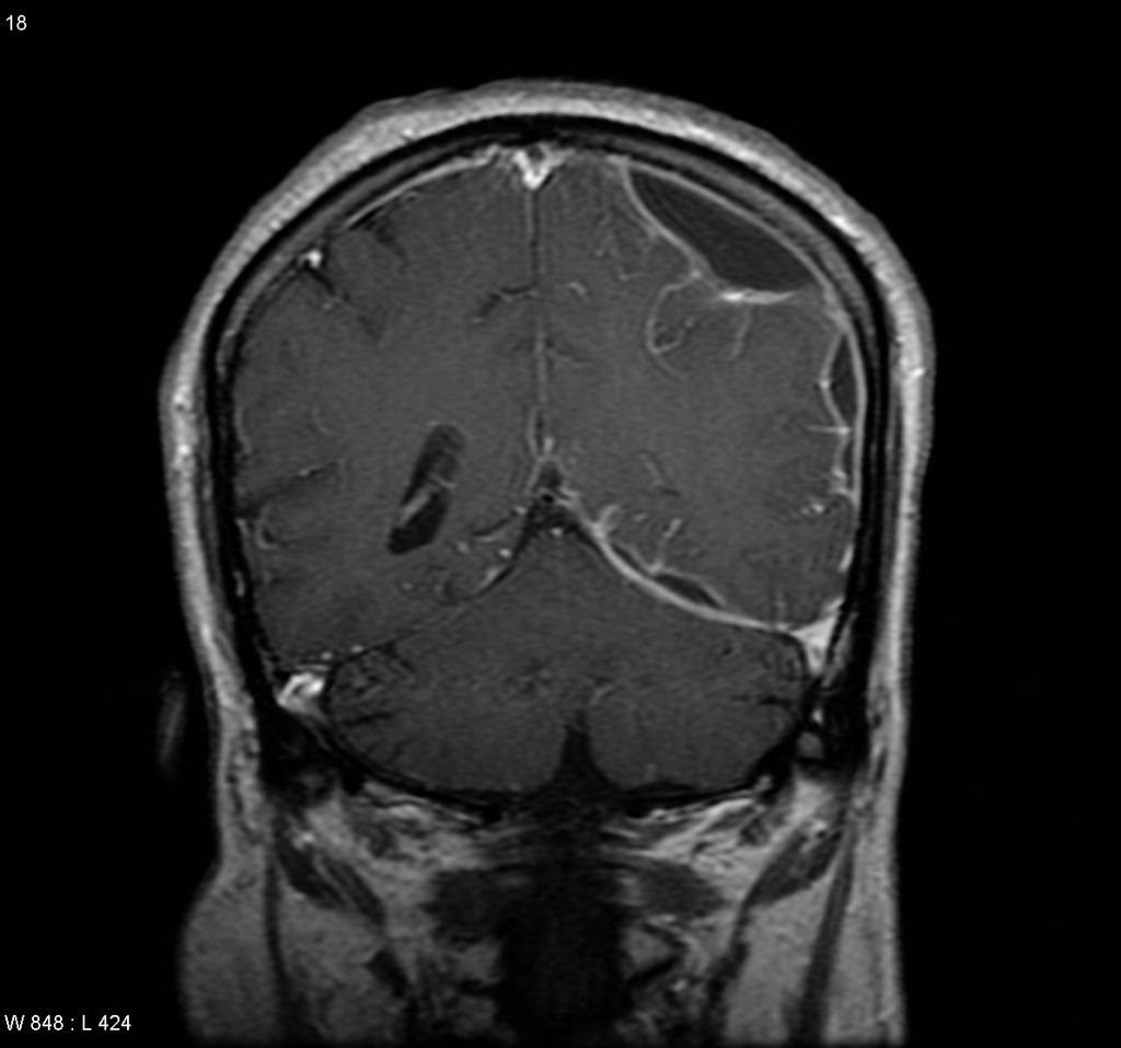 Adult male presented with meningism and seizures. MRI demonstrates extensive subdural collections with marginal enhancement. Findings consitent with subdural empyema.